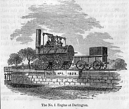 The No. 1 engine developed by George Stephenson for the Stockton and Darlington Railway, called 'Locomotion'